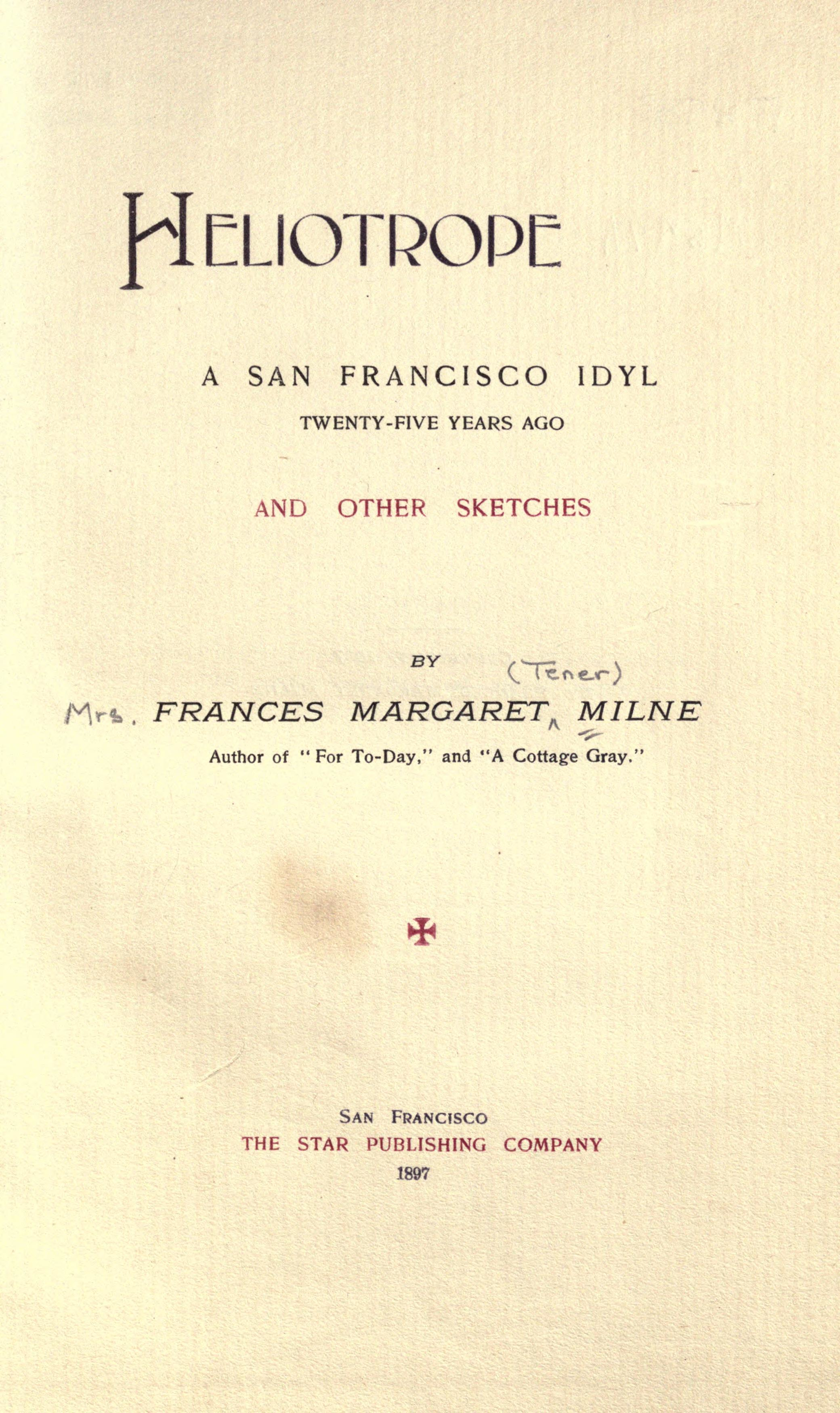 Heliotrope: A San Francisco Idyl Twenty-five Years Ago : and Other Sketches, By Frances Margaret Milne